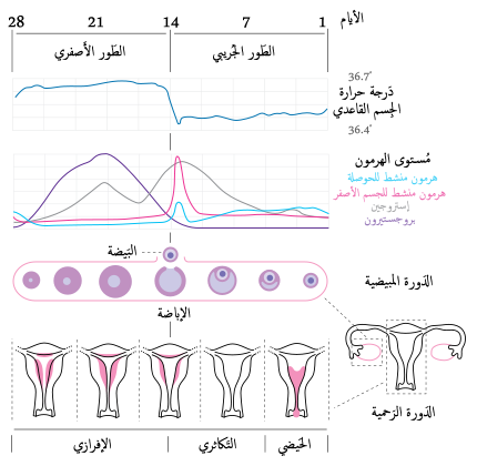 Diagram of the menstrual cycle (based on several different sources)